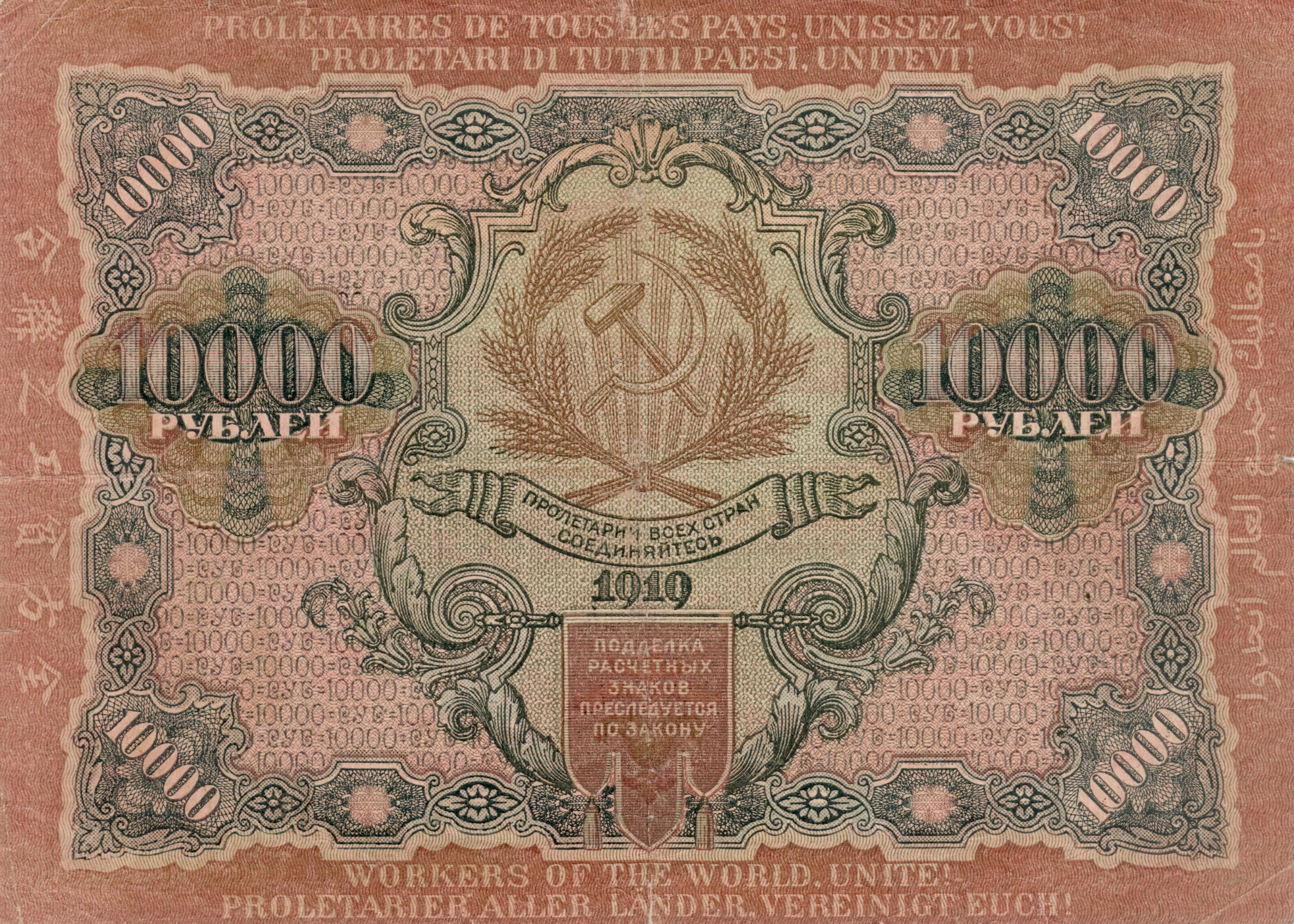 Soviet banknote bill 10 000 back, 1919. See also other side Image:10000roubles1919a.jpg